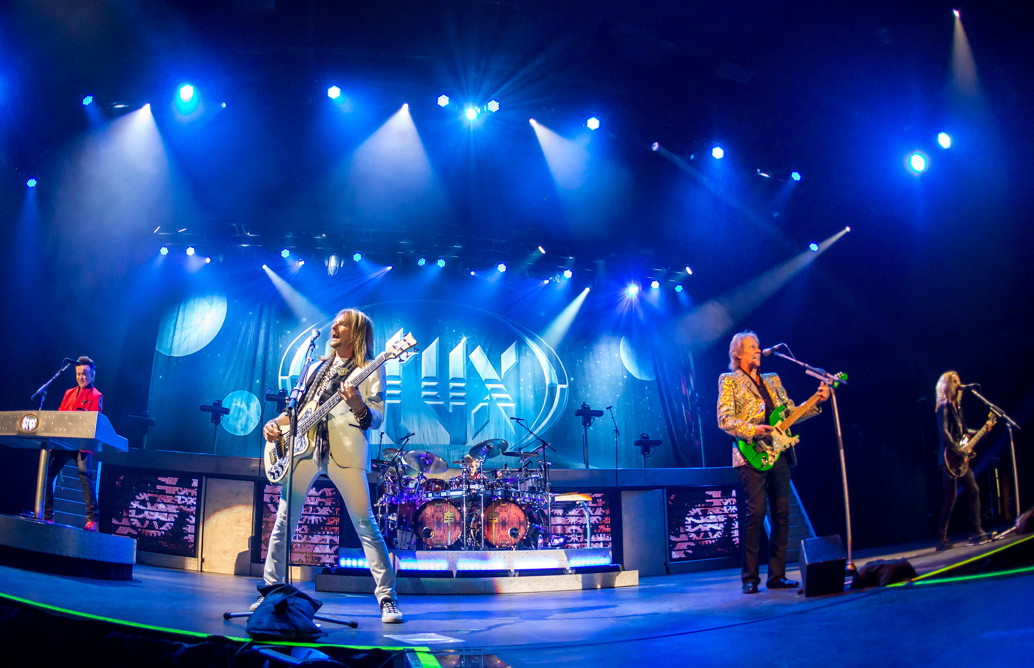 Styx performing at the HEB Center in Cedar Park, Texas on July 31, 2017.